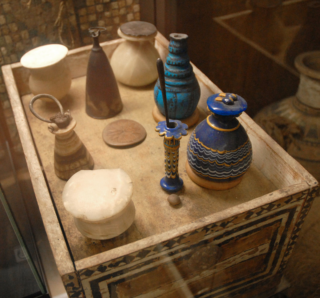 The wood (sycamore) box of Merit, Kha's wife from Theban Tomb 8. It features alabaster, glass and faience vessels which would have contained kohl and ointments for Merit's use in the afterlife. Now located in the Egyptian Museum of Turin.